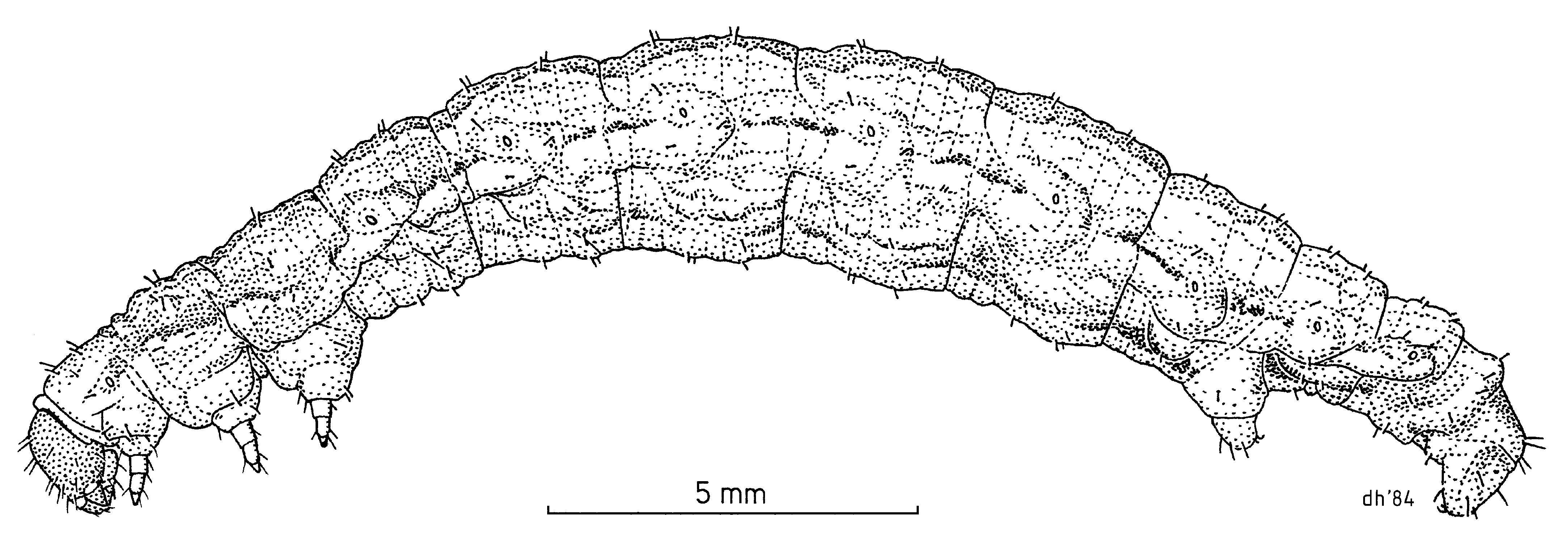 (Lepidoptera: Geometridae) Asaphodes clarata larva illustrated by Des Helmore.